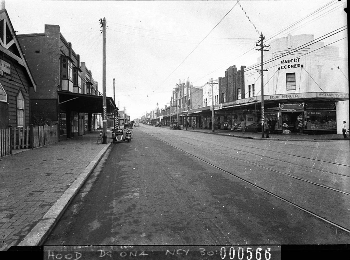 Botany Road, Mascot, showing Mascot Corner (taken for Mascot Council)